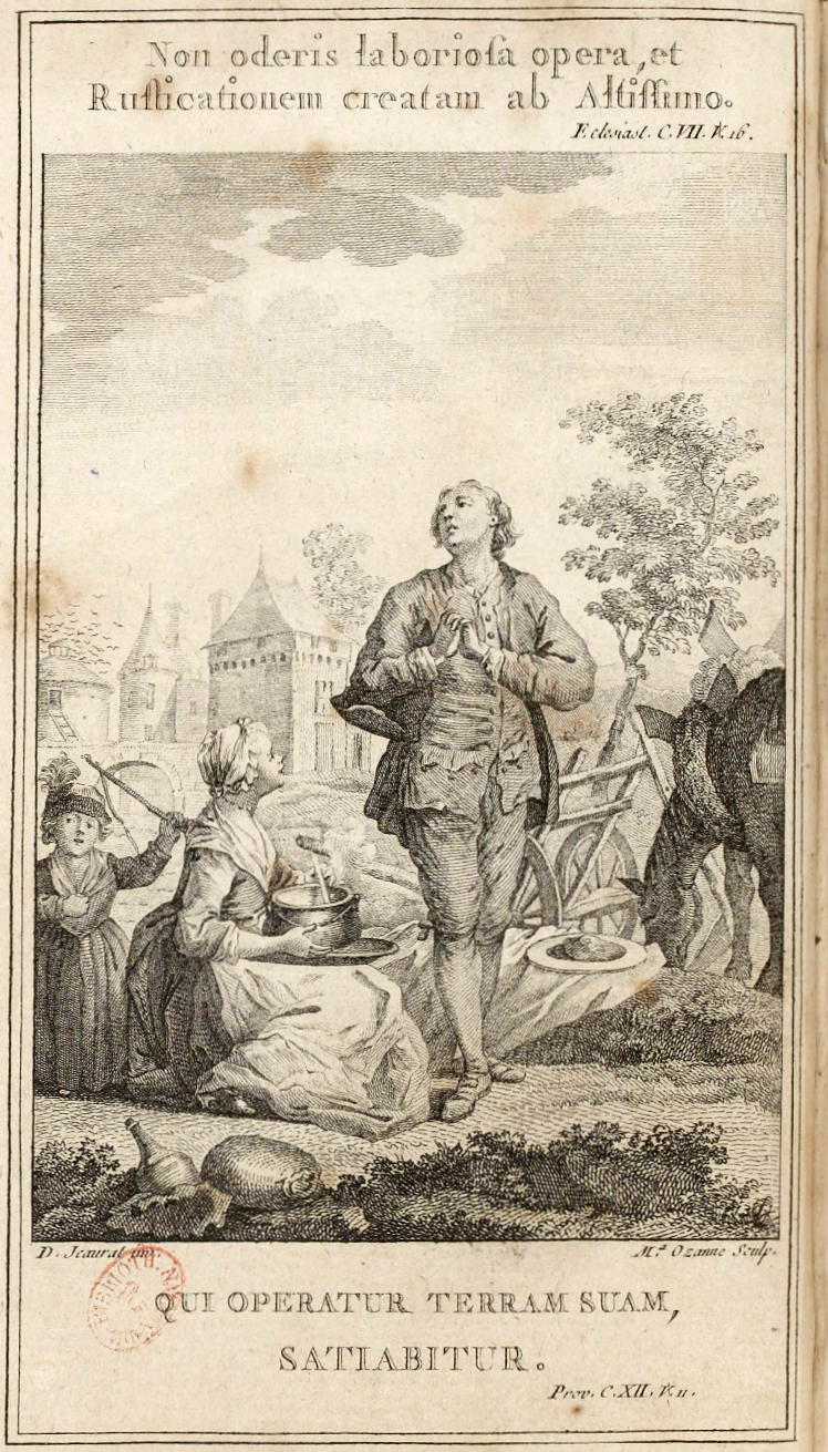 Front illustration of Pierre Samuel du Pont de Nemours' Physiocratie ou Constitution naturelle du gouvernement le plus avantageux au genre humain with